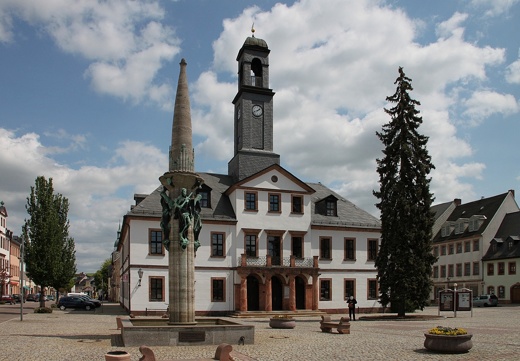 Rochlitz, townhall and market-fountain.